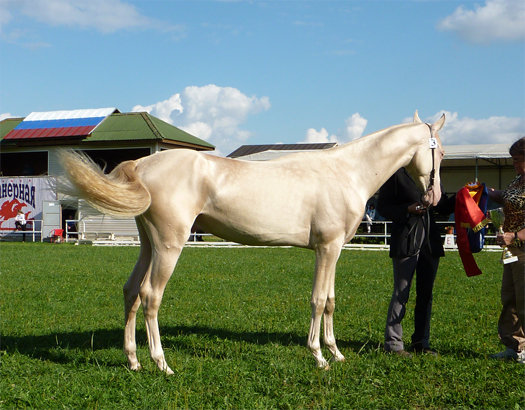 Akgez Geli, cremello Akhal Teke colt 2009 at World Championship in Moscow2